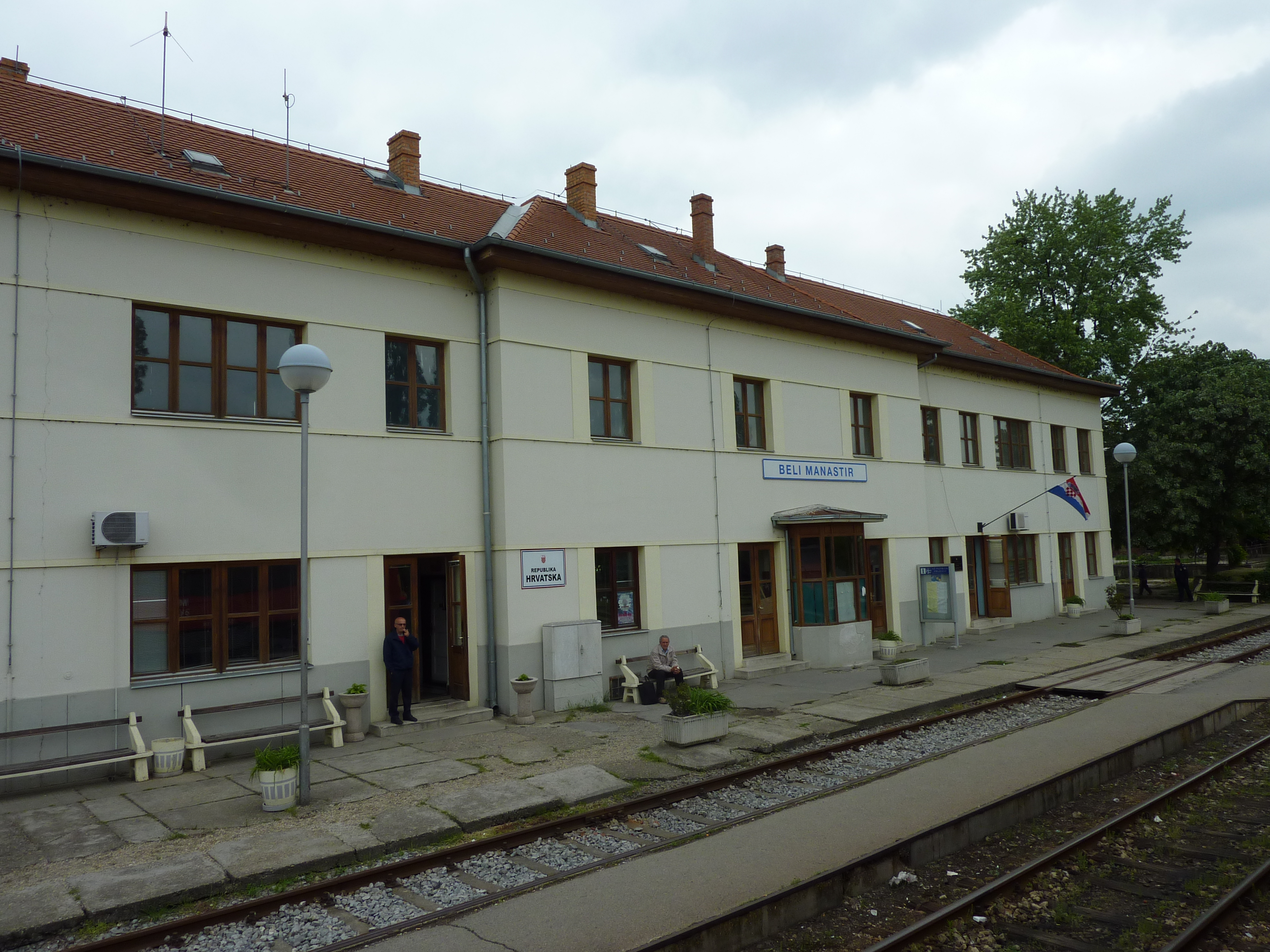 Railway station Beli Manastir, in Croatia